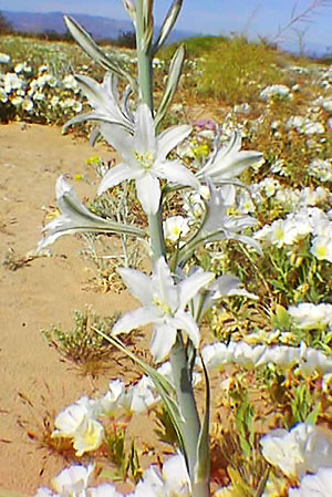 Hesperocallis undulata — Desert Lily. In Joshua Tree National Park, California. Found in the desert areas of southwestern North America.